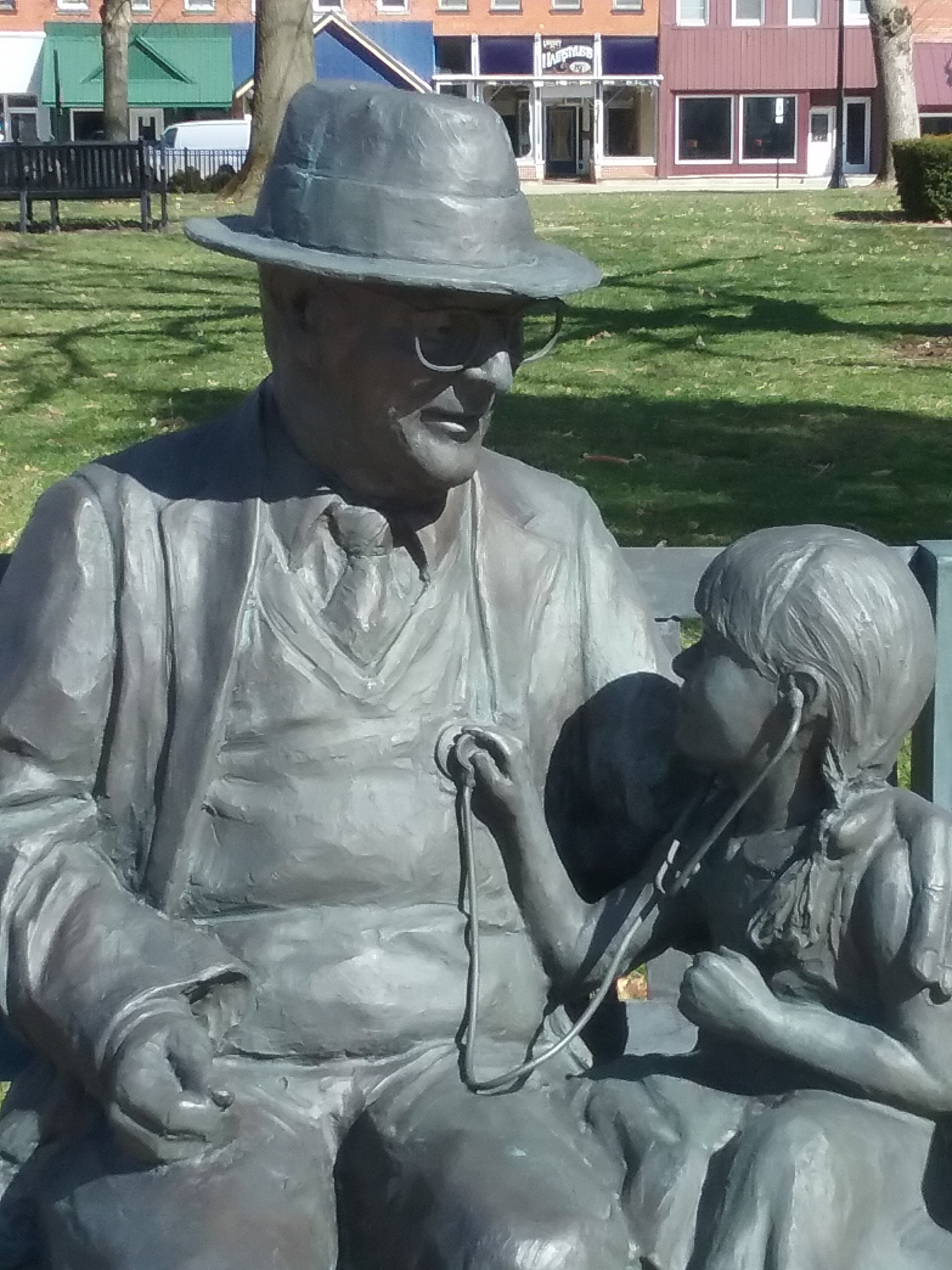 Dr. Dohner Statue in Central Park Square, Downtown Rushville, IL